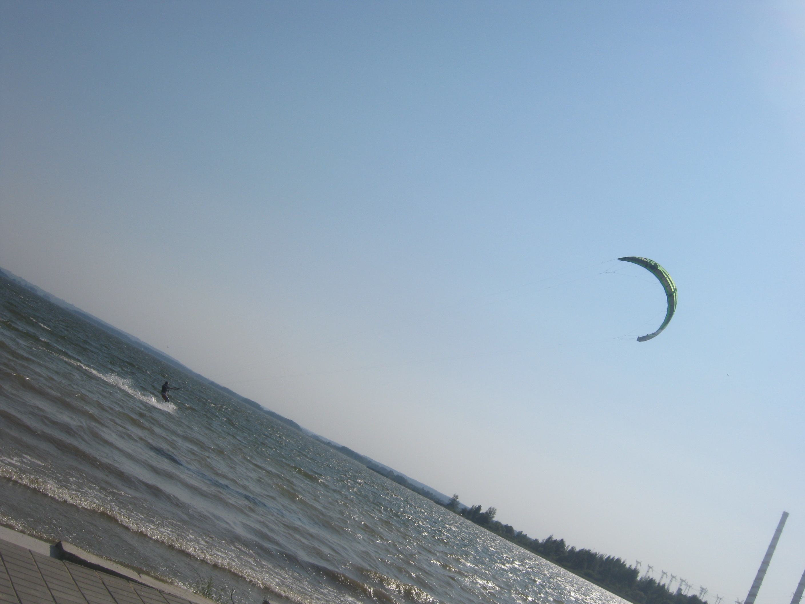 Kitsurfing in Lithuania